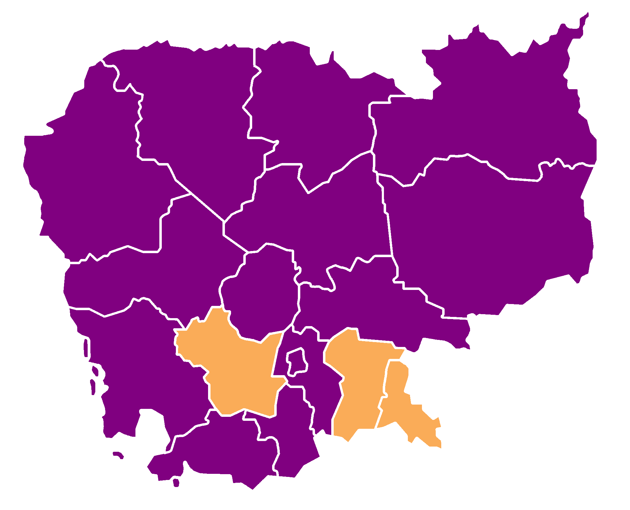 Results of the Cambodian general elections, 1947, by province. Democratic Liberals